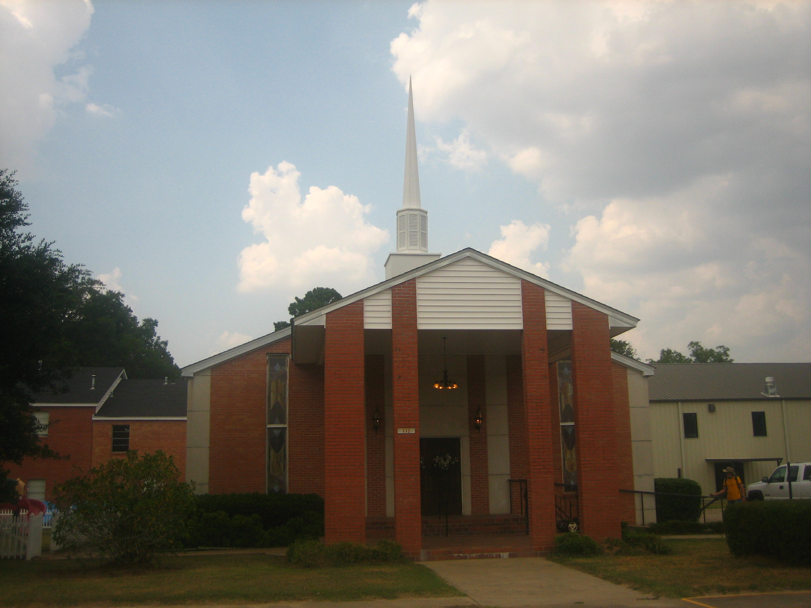 I took photo on Aug. 2, 2008.Billy Hathorn (talk) 03:58, 17 August 2008 (UTC)